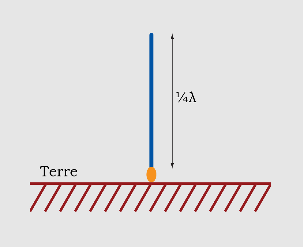 Drawing on a quaterwavelenght Ground plane antenna on the ground or any conductive surface wich is large regarding the wavelenght.